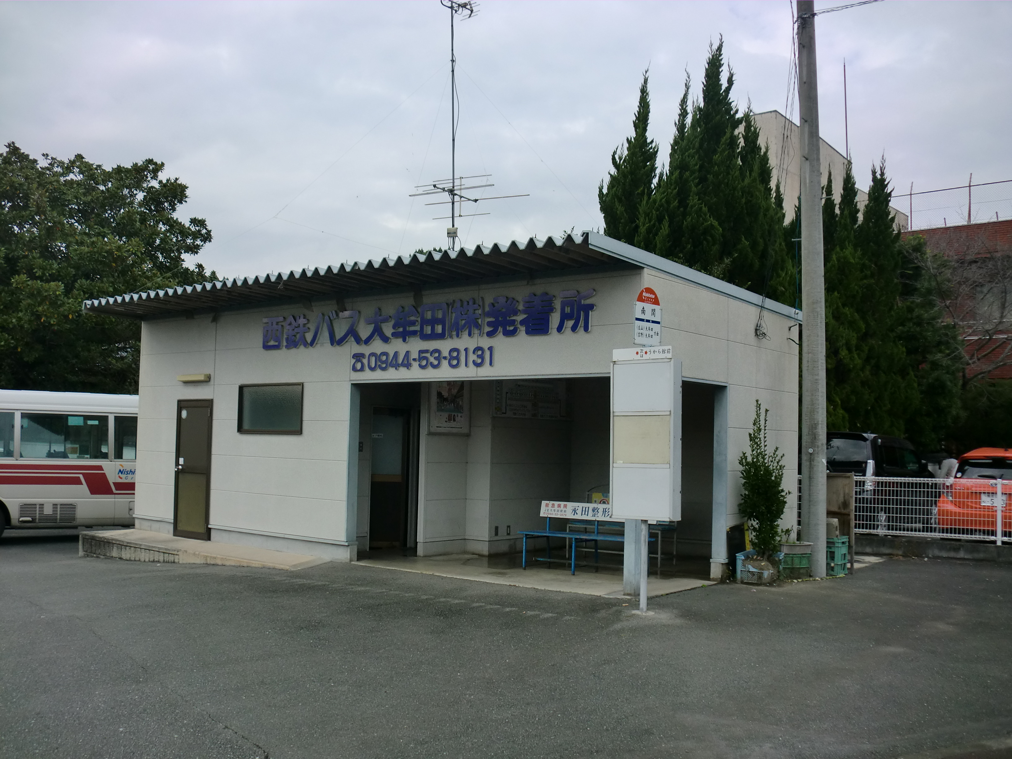 Nankan Bus Stop of Nishitetsu Bus Omuta in Nankan Town, Kumamoto Prefecture, Japan